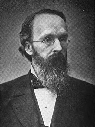 Philip King Gleed, President of the Vermont Senate from 1880 to 1881.